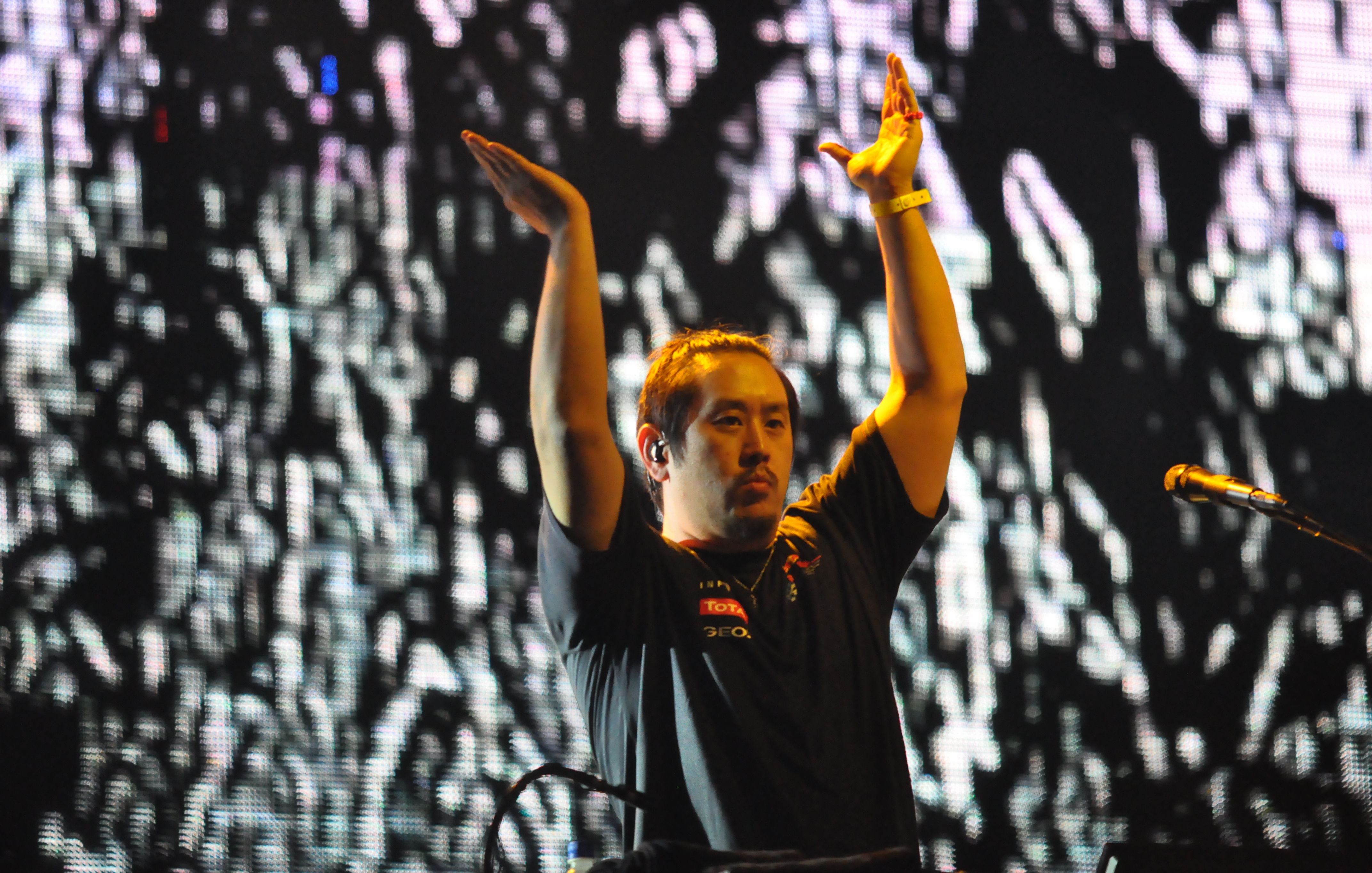 Joe Hahn, turntablist for Linkin Park, performs at a concert in Singapore on September 24, 2011